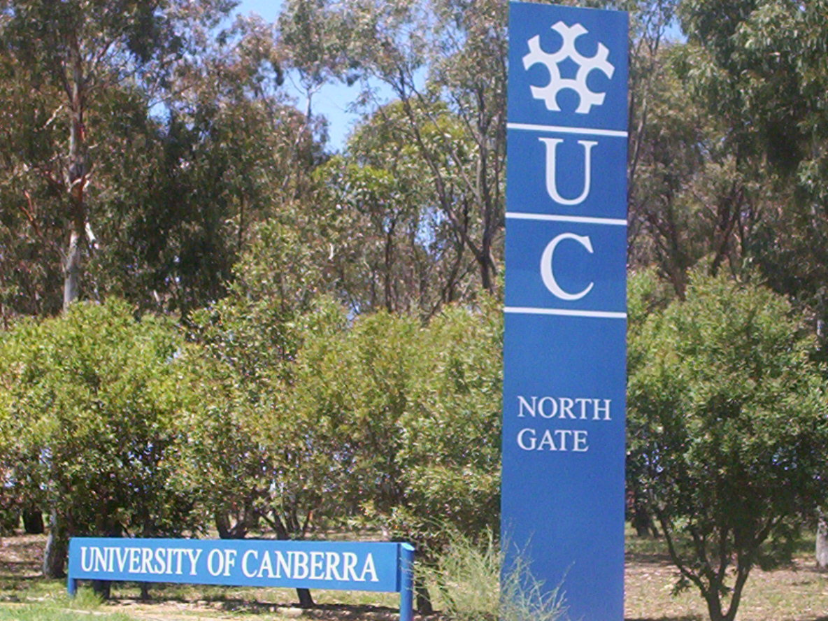 Sign and logo at the North entrance of the University of Canberra, Australia